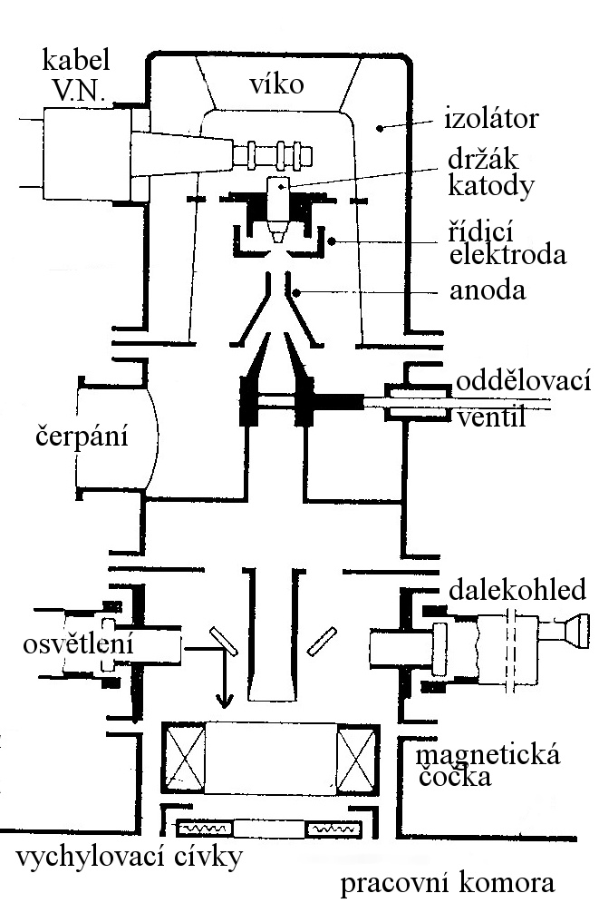 Electron gun schematic diagram